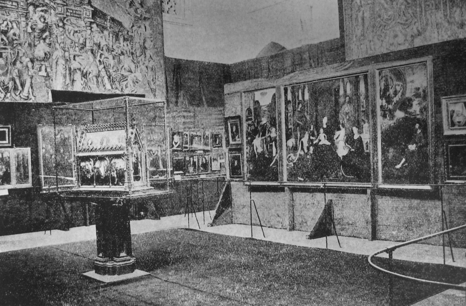 Bruges 1902 Early Netherlandish paintings exhibition view of one of the rooms